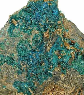 Veszelyite Locality: Ocna de Fier (Vaskö-Moraviţa; Vaskö-Moravicza; Eisenstein), Ocna de Fier-Dognecea District, Banat Mts, Caras-Severin County, Romania (Locality at ) Size: 11.2 x 8.3 x 4.0 cm. This is a large, rather rich specimen from the TYPE LOCALITY. It has numerous crystals to 1mm, in veins on one display face. Other minerals may also be present given the multihued shading. Ex. Academy of Natural Sciences Philadelphia Collection.